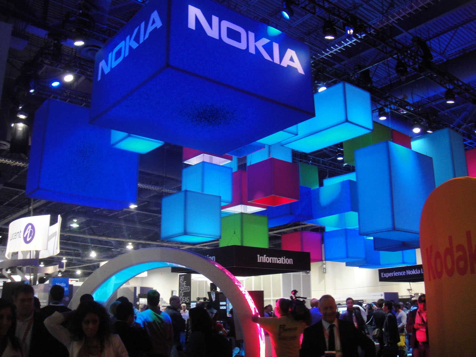 photo 2012 Pop Culture Geek taken by Doug Kline If you're interested in higher resolution versions of my images, contact me via my profile page.